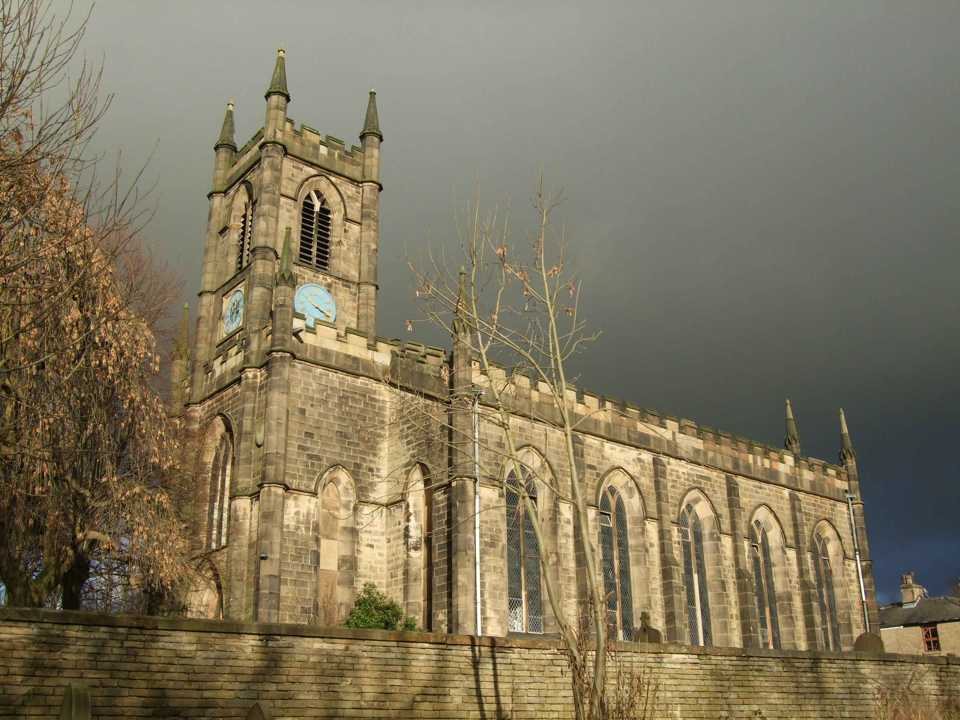 Parish church of St John the Baptist, Bollington, Cheshire, seen from the southwest